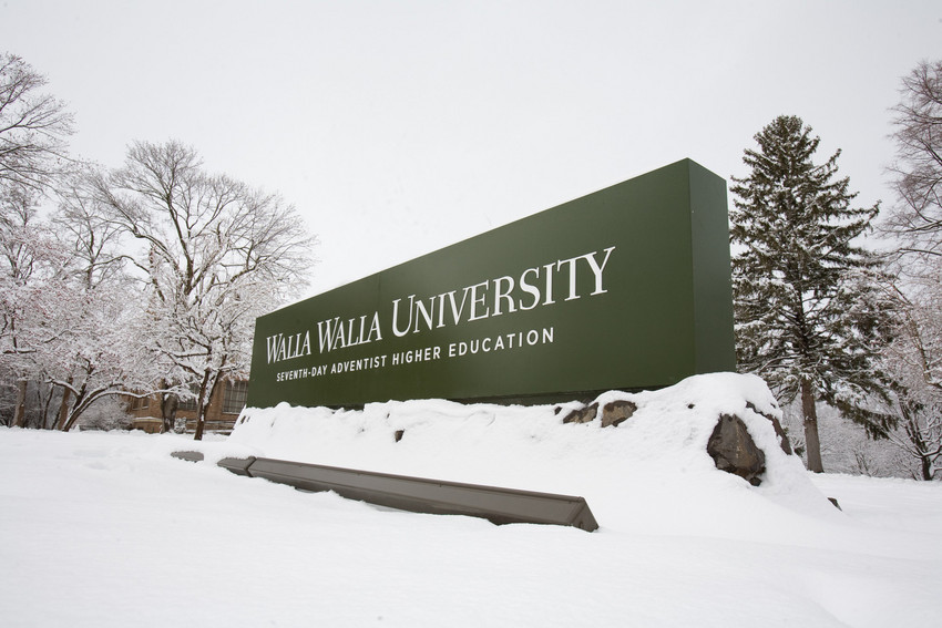 Walla Walla University sign